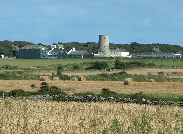 Photogaph of the Windmill at Castletown, Isle of Man